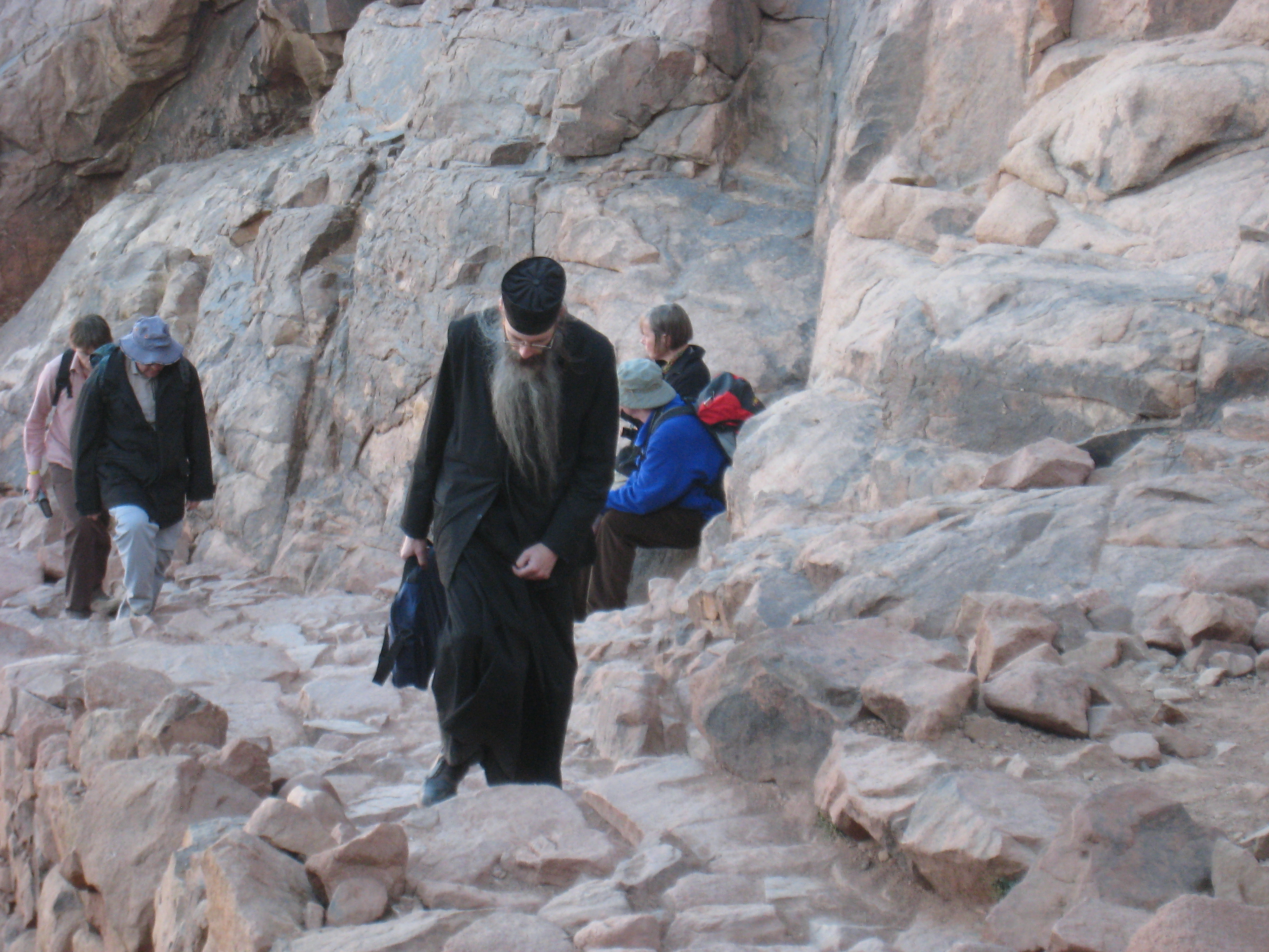 Orthodox priest walking up Mount Sinai (Egypt).